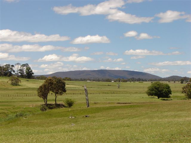 Mt Duval from Invergowrie, near Armidale, New South Wales. Taken by kiwifruitboi December 2005 Kiwifruitboi 10:41, 5 January 2006 (UTC)